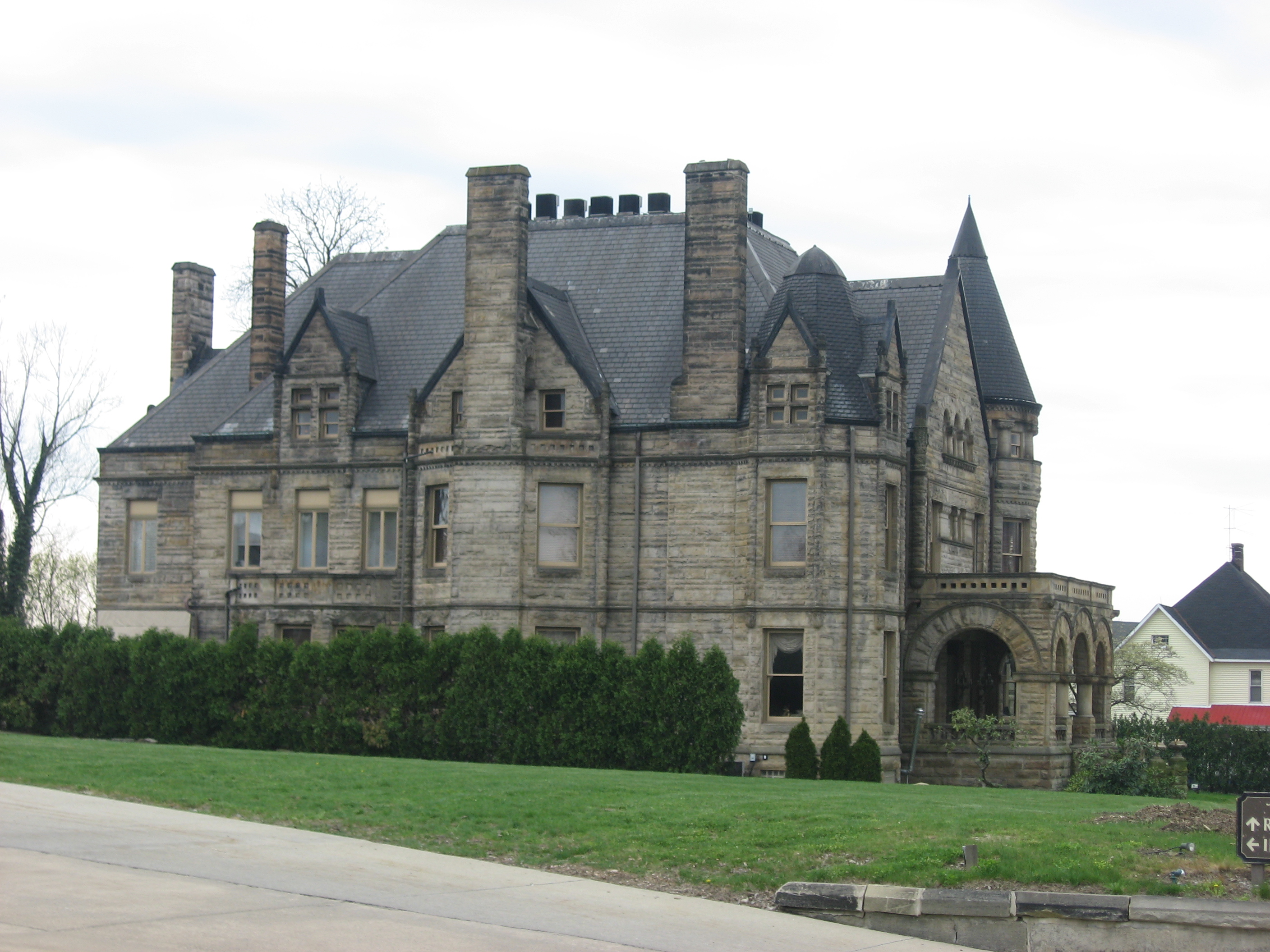 Eastern side and front of the Frank H. Buhl Mansion, located at 422 E. State Street (Route 518) in Sharon, Pennsylvania, United States. Built in 1891, it is listed on the National Register of Historic Places.